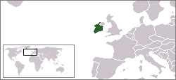 Location of Republic of Ireland Originally created for English Wikipedia by Vardion.